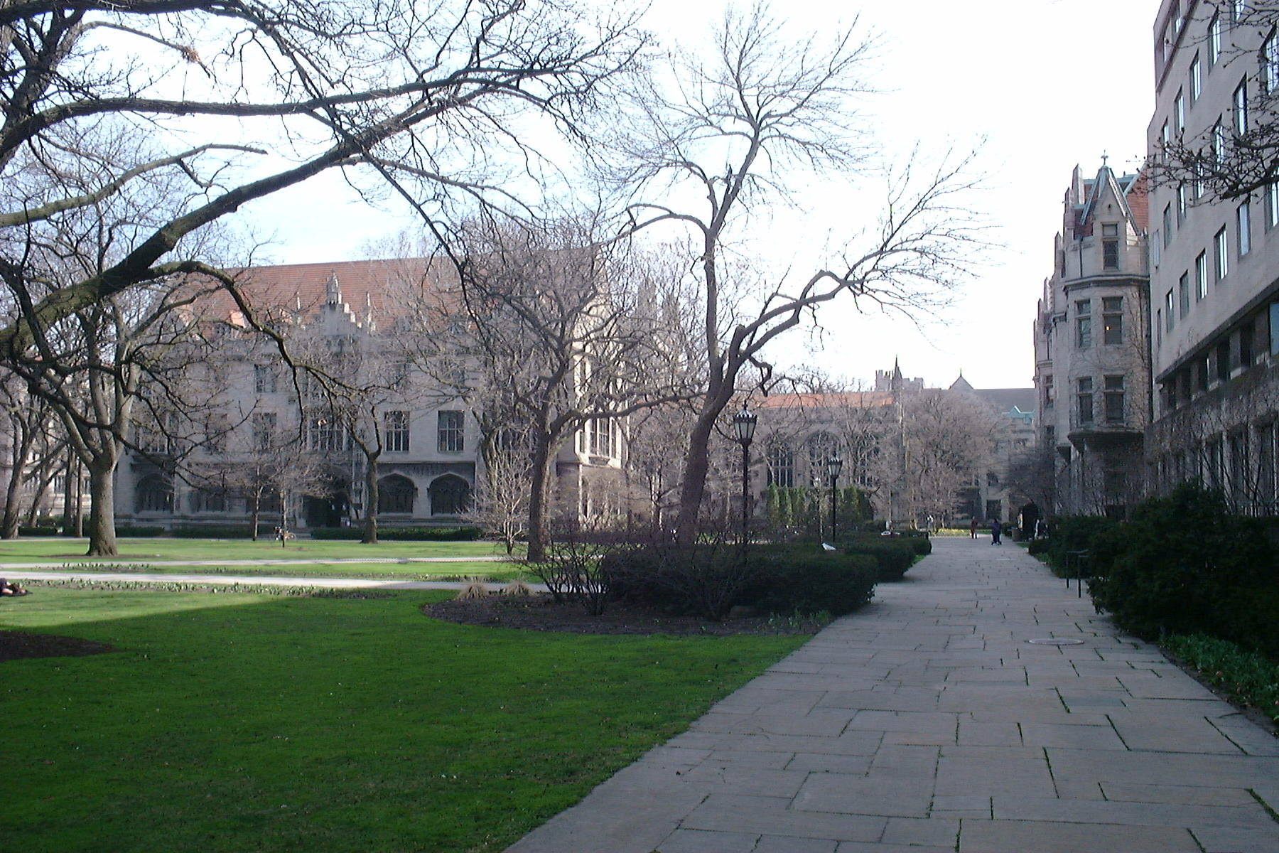 University of Chicago